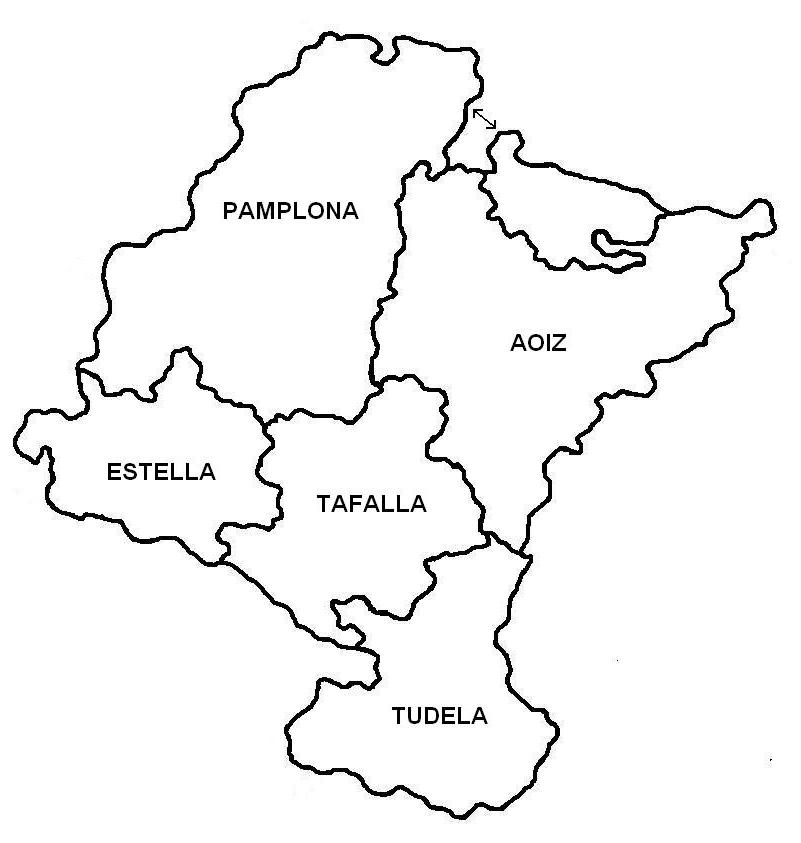 electoral districts in Navarre, Spain, during the late 19th century